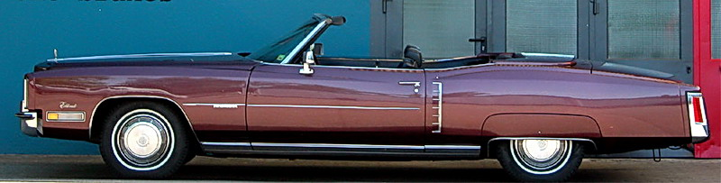 1972 Cadillac Eldorado Convertible with parade boots